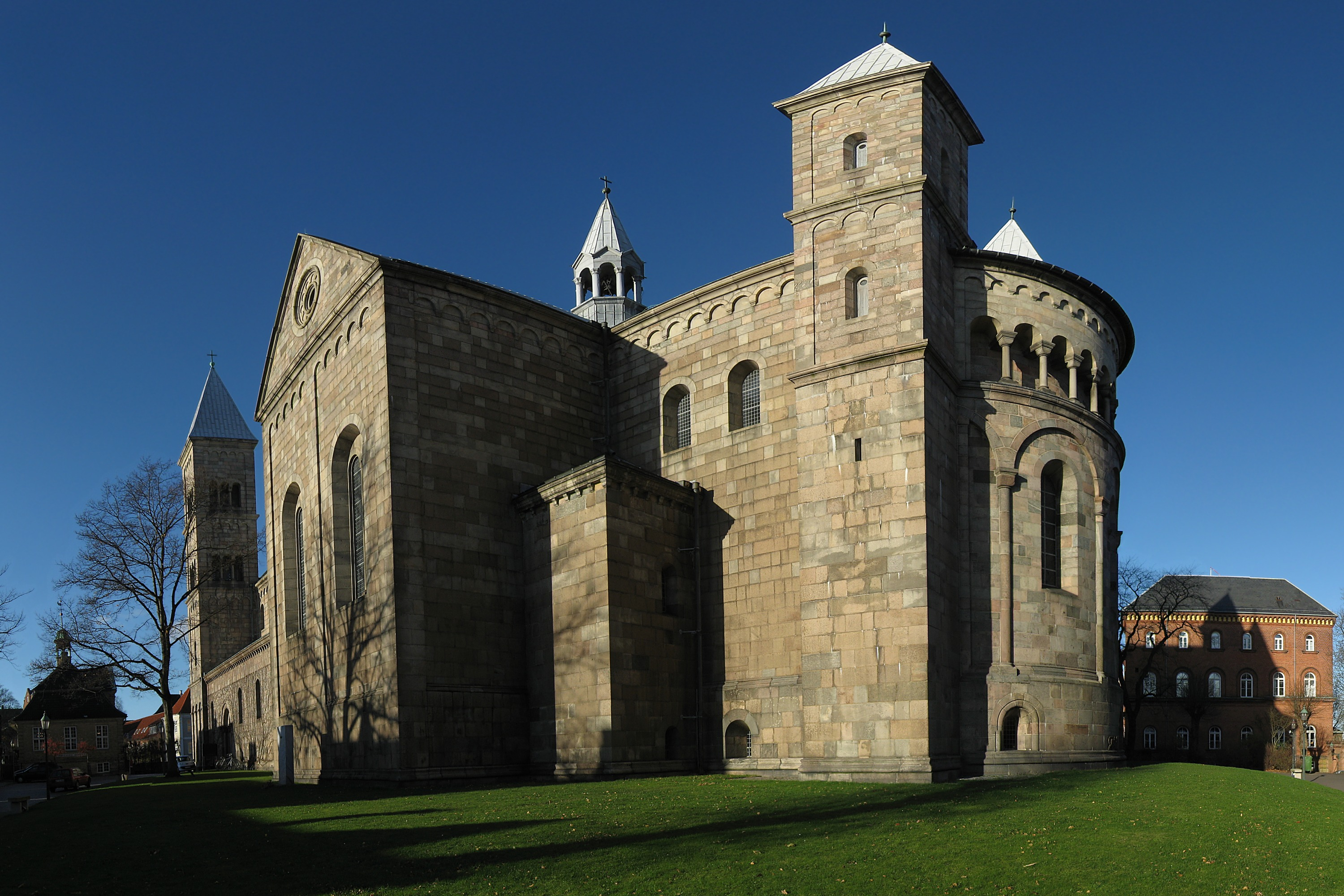 South-eastern view of Viborg cathedral in Viborg, Denmark. The photo is created in Hugin from 10 handheld portrait photographs using a compact camera (Canon DIGITAL IXUS 800 IS). Subsequently the image has been edited in GIMP, where noise has been damped in the sky. The church and trees have been selectively sharpened followed by a downsample to about 6 MPixels and conversion to JPG with a quality of 92%. The composite photo has at least one minor stitching error due to parallax movements.